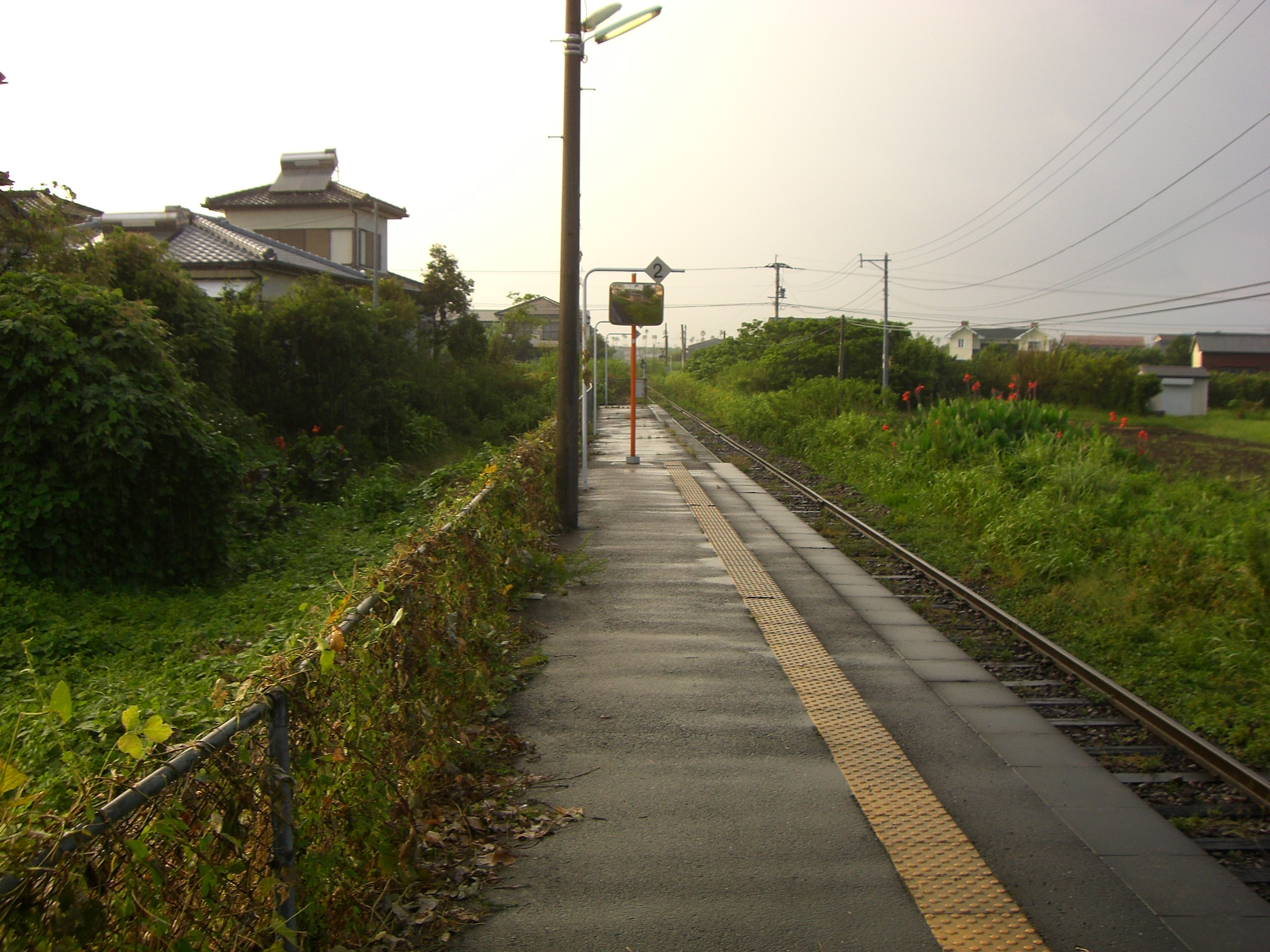 JR Kyushu Nichinan Line Minamikata Station, facing northward